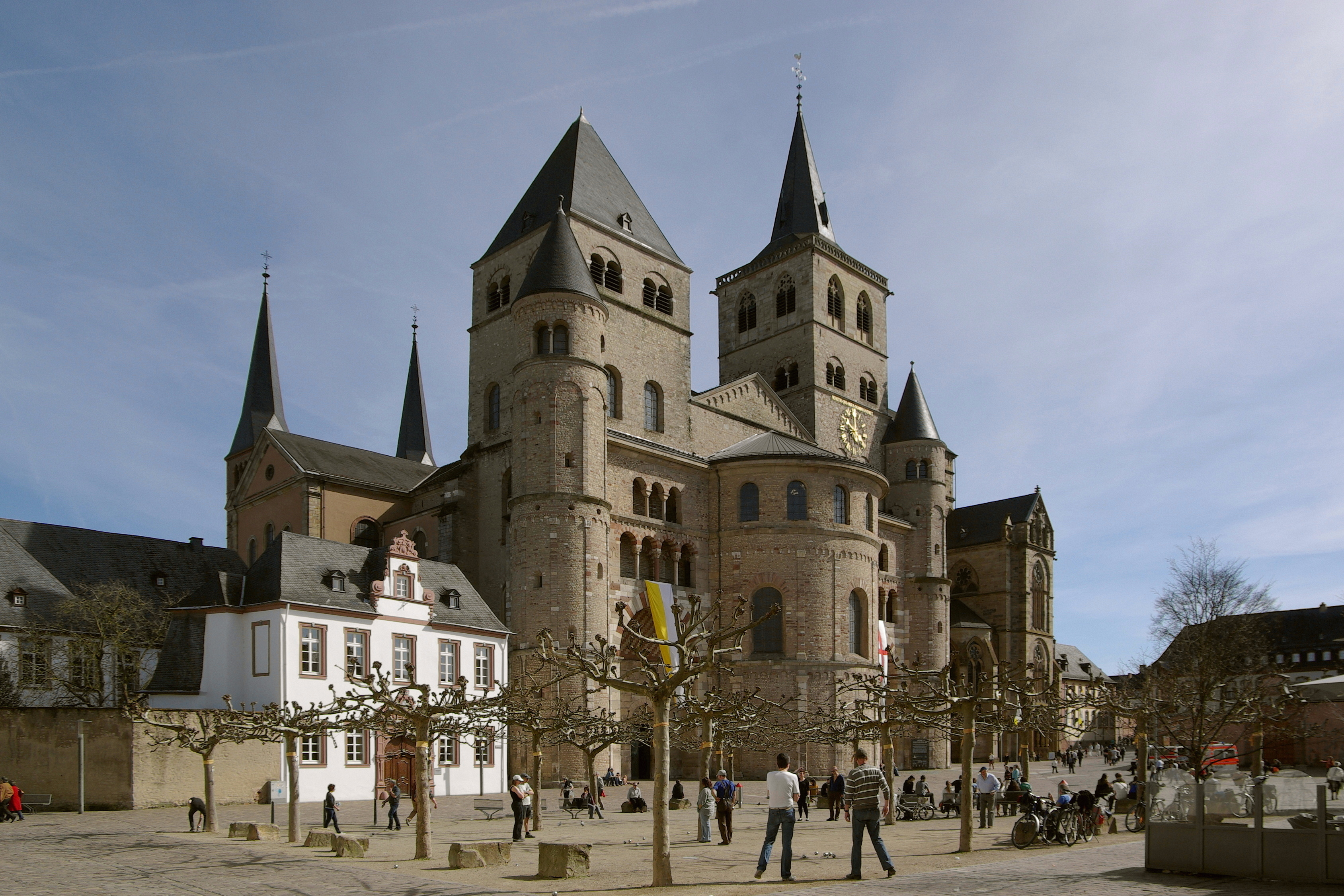 Germany, Trier, cathedral